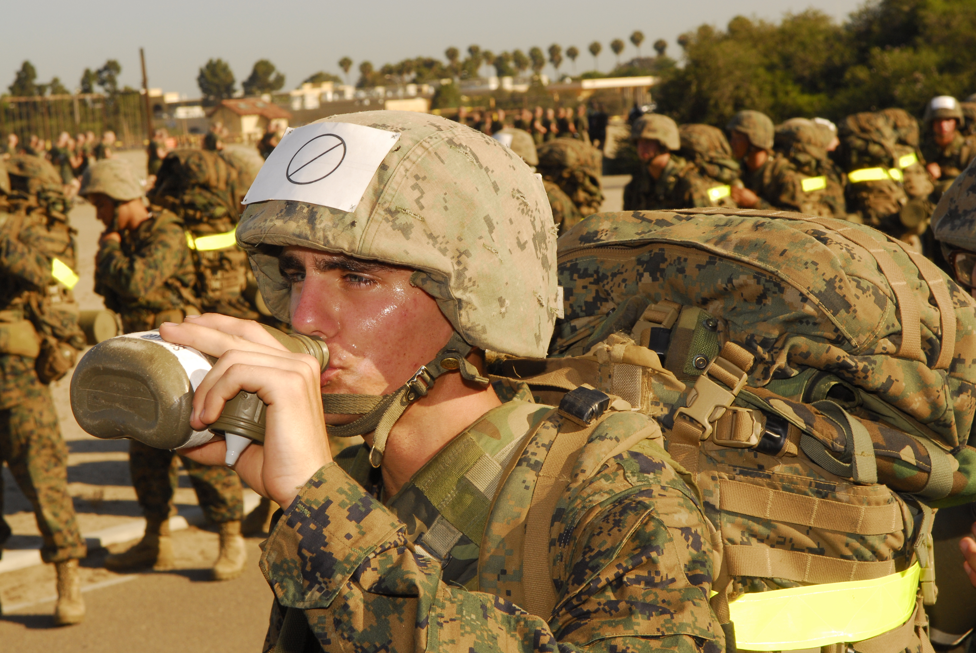 Recruit Bradley S. Davis, Platoon 2129, Company F, takes a drink from his canteen during one of the breaks on the depot hike.